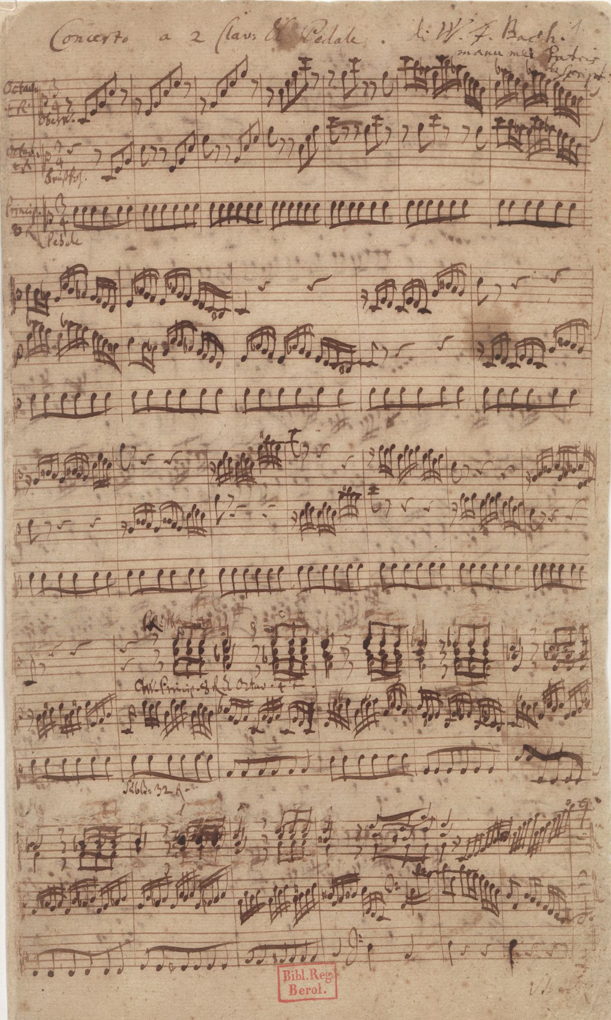 Autograph score of the first movement of BWV 596, Johann Sebastian Bach's transcription of Vivaldi's double violin concerto Op.3. No.11.